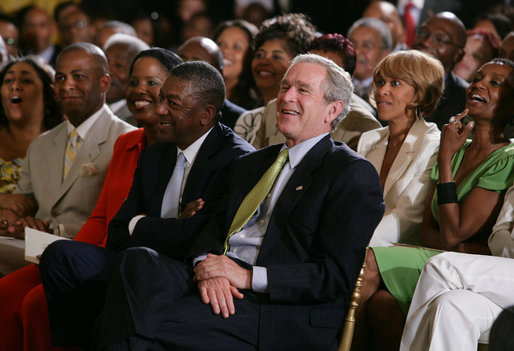 President George W. Bush, entrepreneur Bob Johnson, left, and invited guests respond to entertainers Friday, June 22, 2007 in the East Room of the White House, in celebration of Black Music Month. White House photo by Chris Greenberg